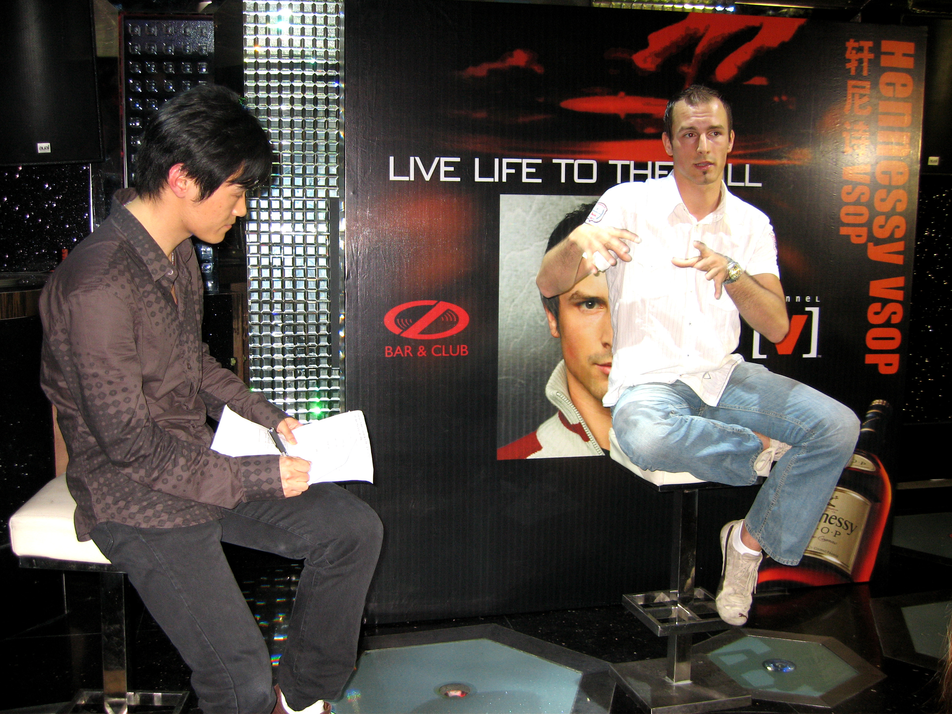 Mark Brain interviewed by the press at CD Club in Shanghai, China